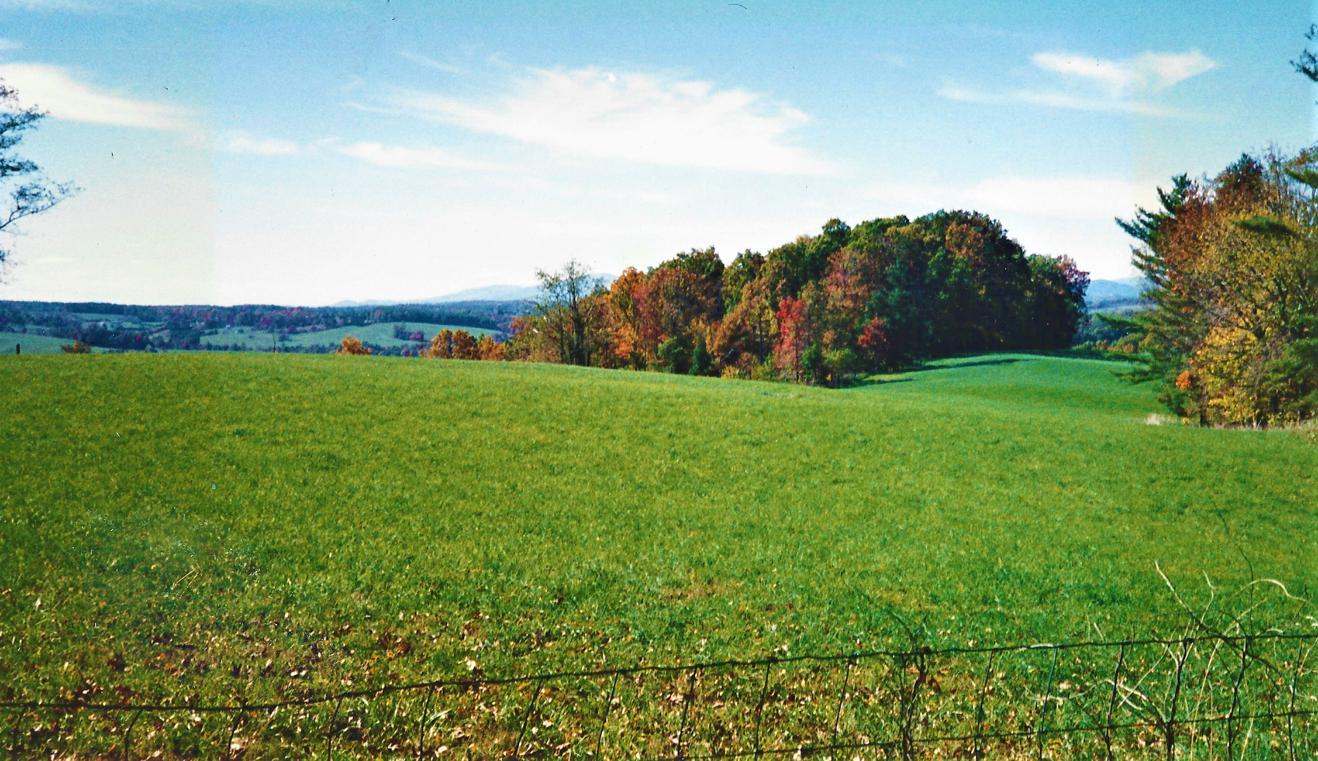 Woodlawn, Virginia meadow in October.